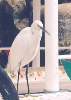 Little egret (Egretta garzetta) in the next boat. Aswan.